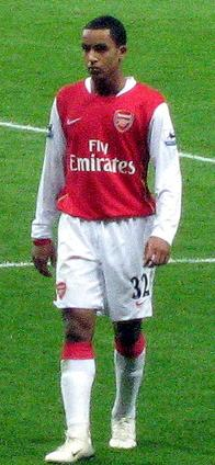 English football (soccer) player Theo Walcott